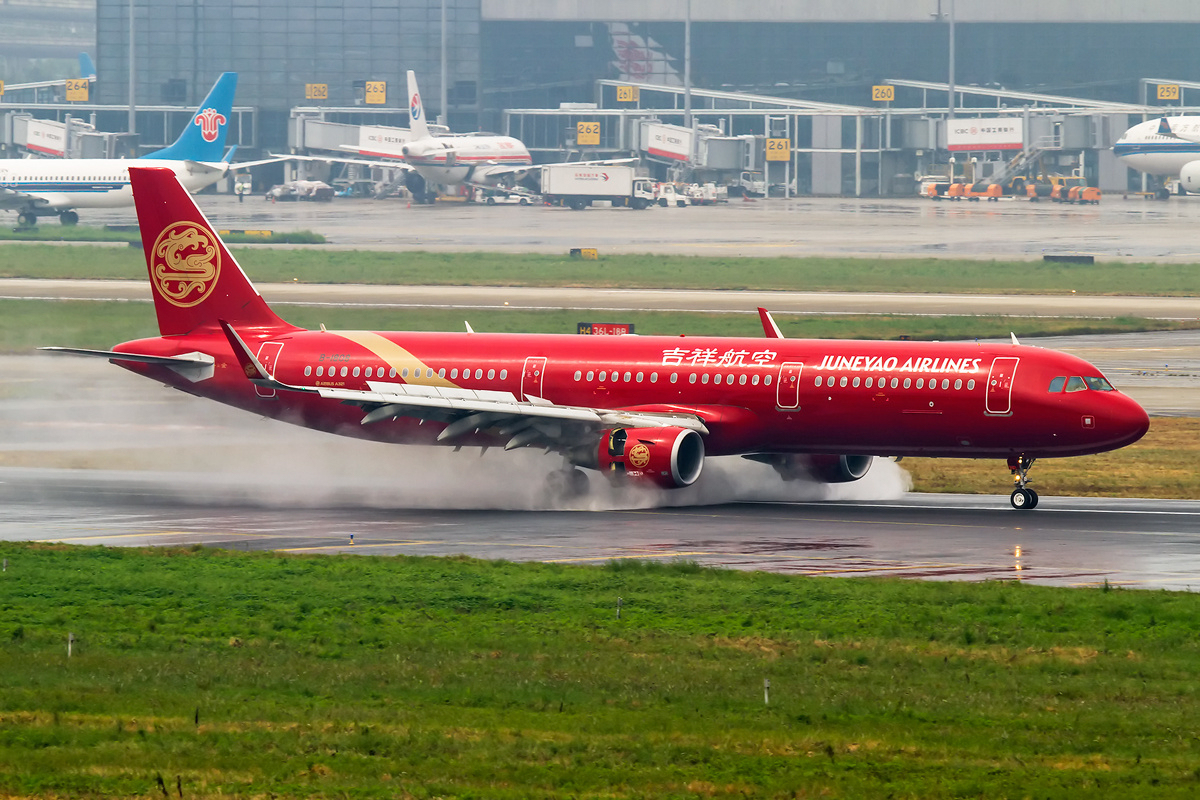 Juneyao Airlines Airbus A321-211 at Shanghai Hongqiao